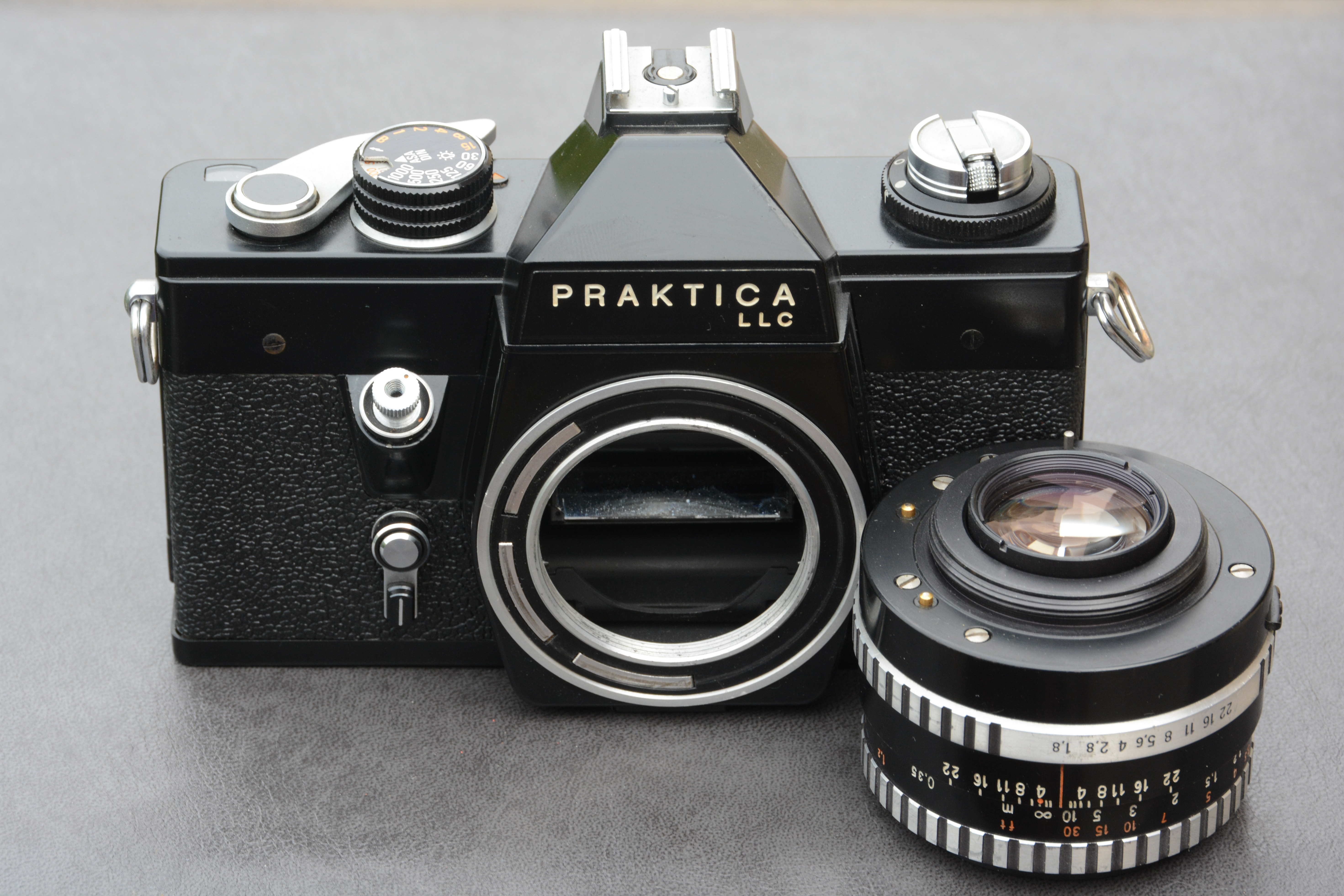 Praktica LLC SLR black with Pancolar 1,8/50 lens; lens removed from the camera